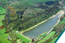 Aerial photograph of Dowdeswell Reservoir and Wood (Gloucestershire nature reserve), England.